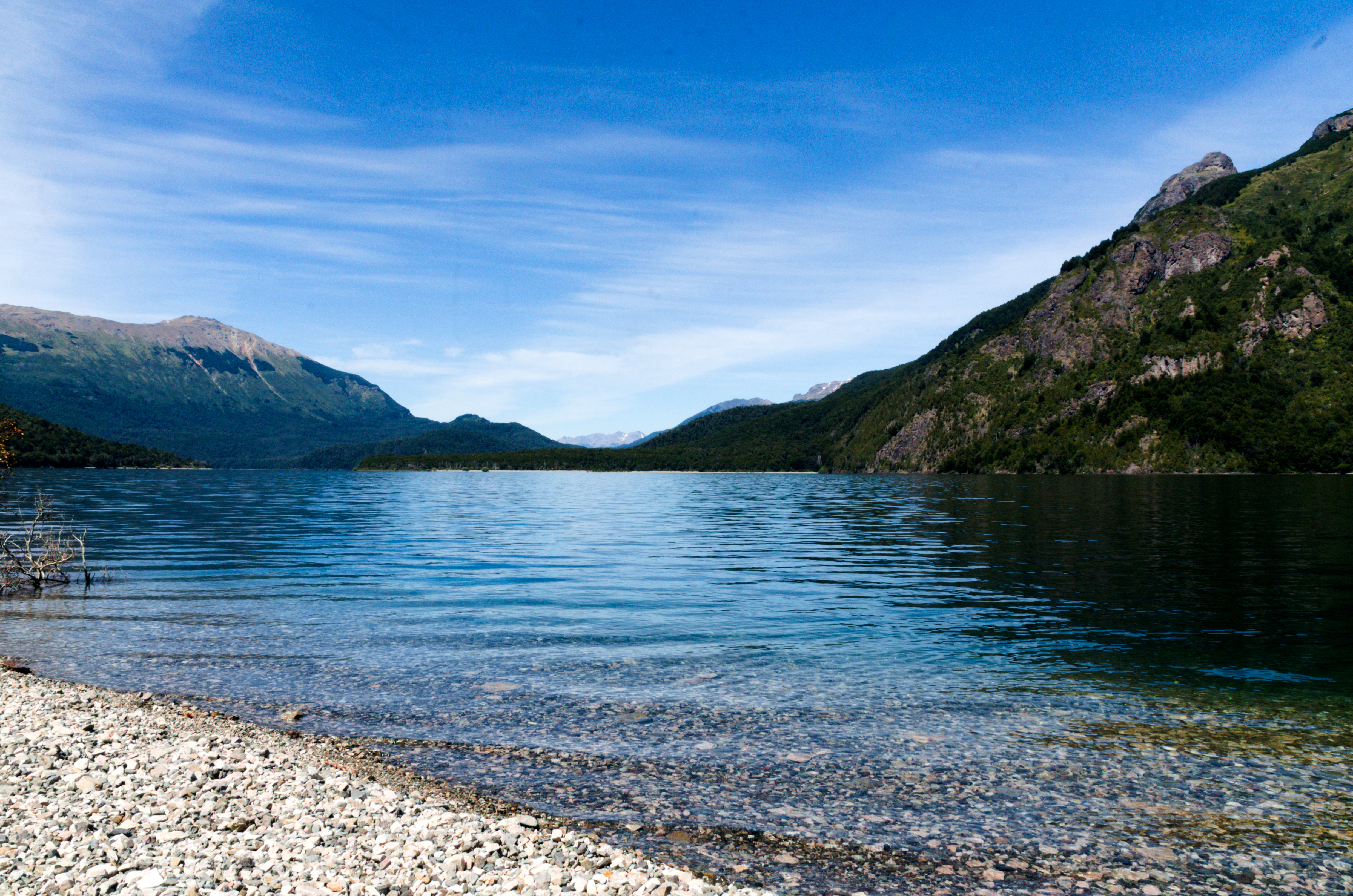 This is the view from one of the shores of the lake, you can see the mountains and the water clarity.